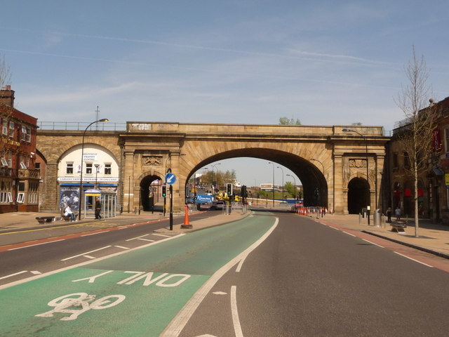 Sheffield: Wicker Arches A landmark of Sheffield whose immediate surroundings have changed immensely in recent years, with the building of the new ring road, from which we are looking, the connecting road towards Rotherham just the other side of the arches, and the re-marking of the roads all around that it has entailed. Above used to run the Sheffield to Manchester main line, the first in the country to be fully electrified. But the Beeching Report in the 60s suggested only one main line, either this or the Peaks line farther south – this one lost out and the passenger service ceased in 1971.